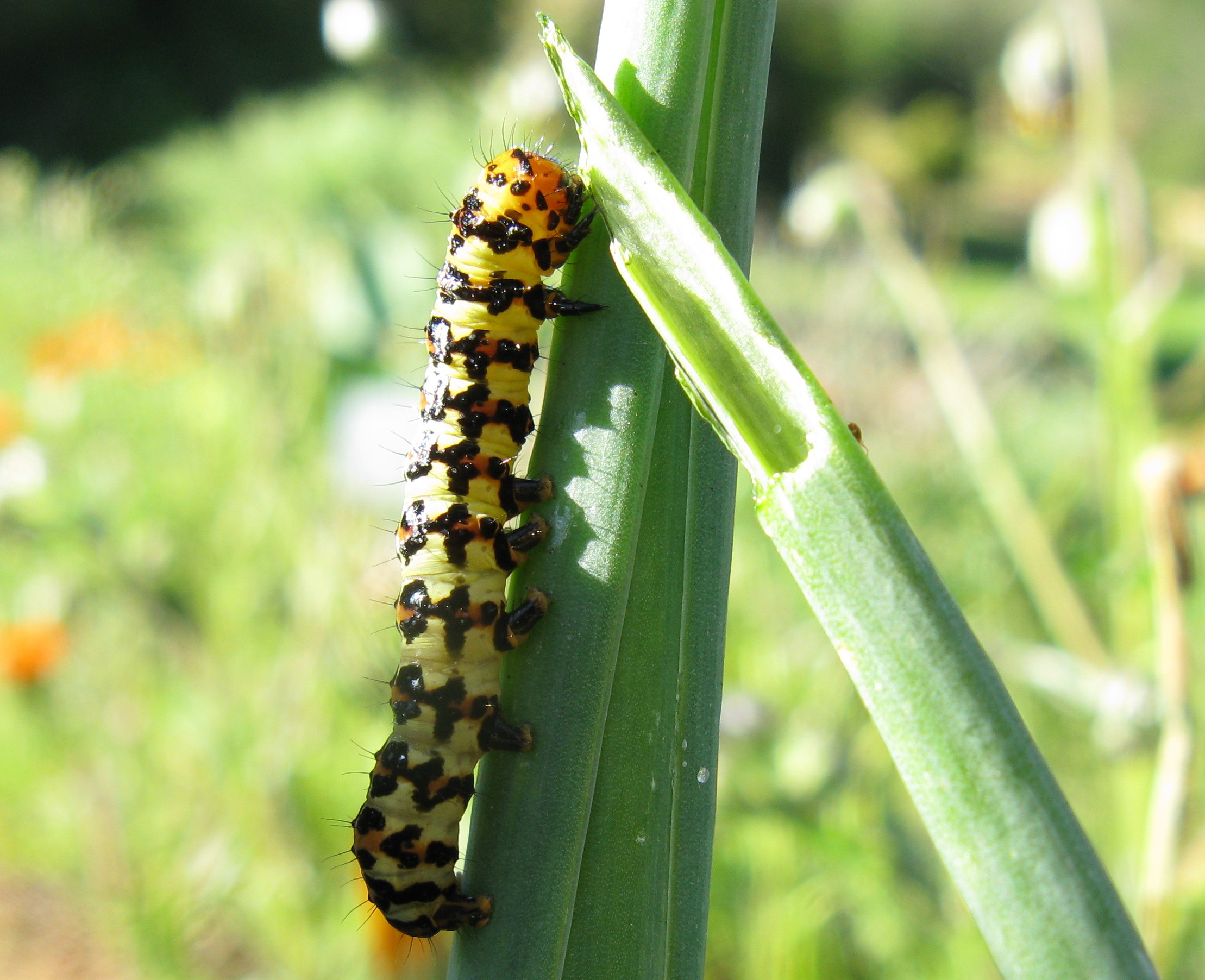 Brithys crini is a moth in the family Noctuidae. It is known as the Lily borer or Amaryllis borer because its larvae are serious pests of various garden flowers, particularly Albuca, Scilla, and members of what is now the subfamily Amaryllidoideae, such as Crinums. This specimen was photographed in the Karoo Gardens in Worcester, South Africa, while feeding on Albuca.